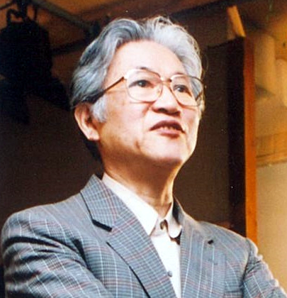 Tadao Iiri, President Emeritus of Japan Institute of the Moving Image, received the Person of Cultural Merit on November, 2019.